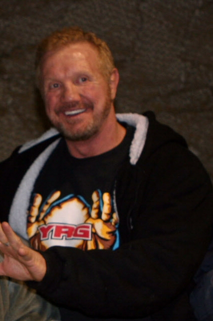 Diamond Dallas Page during the "Legends of Wrestling" tour that came to Bagram Air Base, Afghanistan.